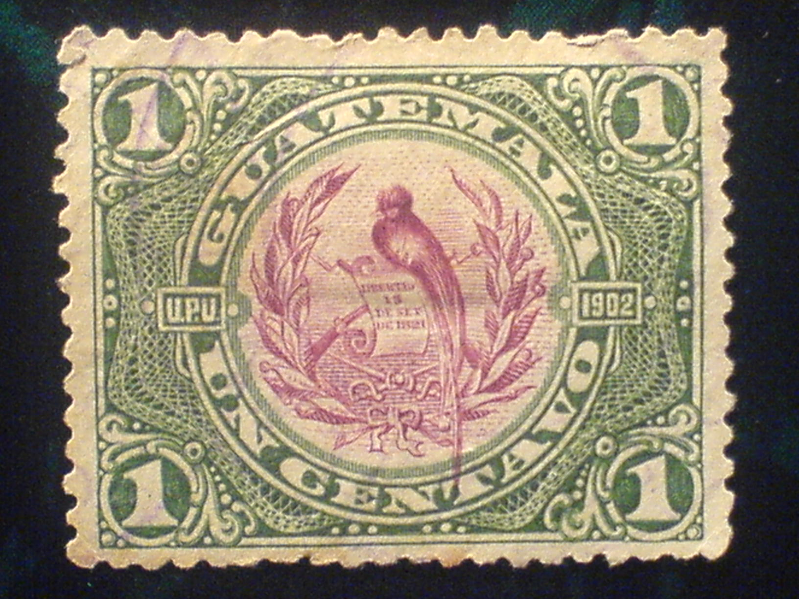 Guatemala stamp, National Emblem, with abbreviation 'U.P.U.', 1902, 1 centavo. Scott #114